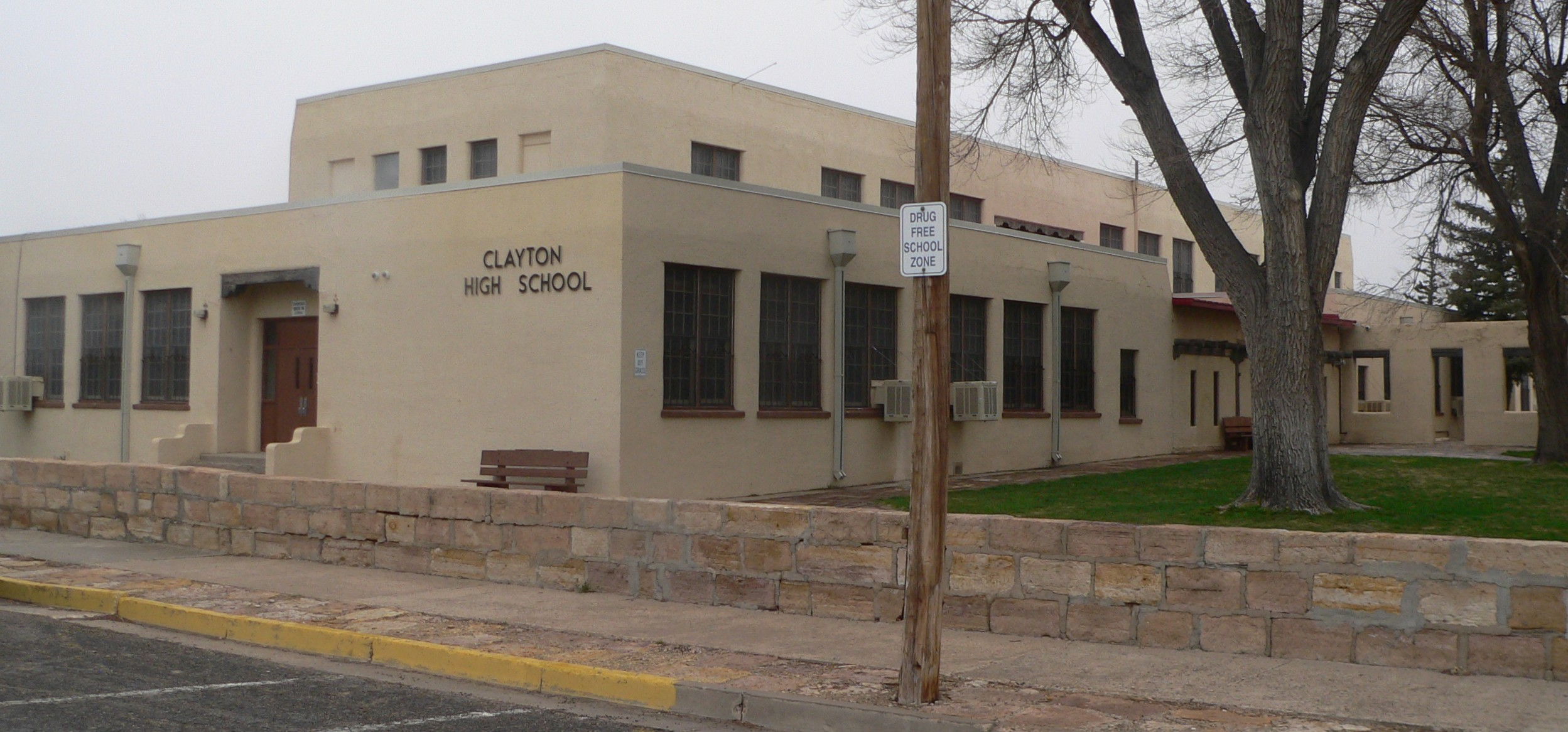 School complex in Clayton, New Mexico: high-school building, seen from 5th Street.